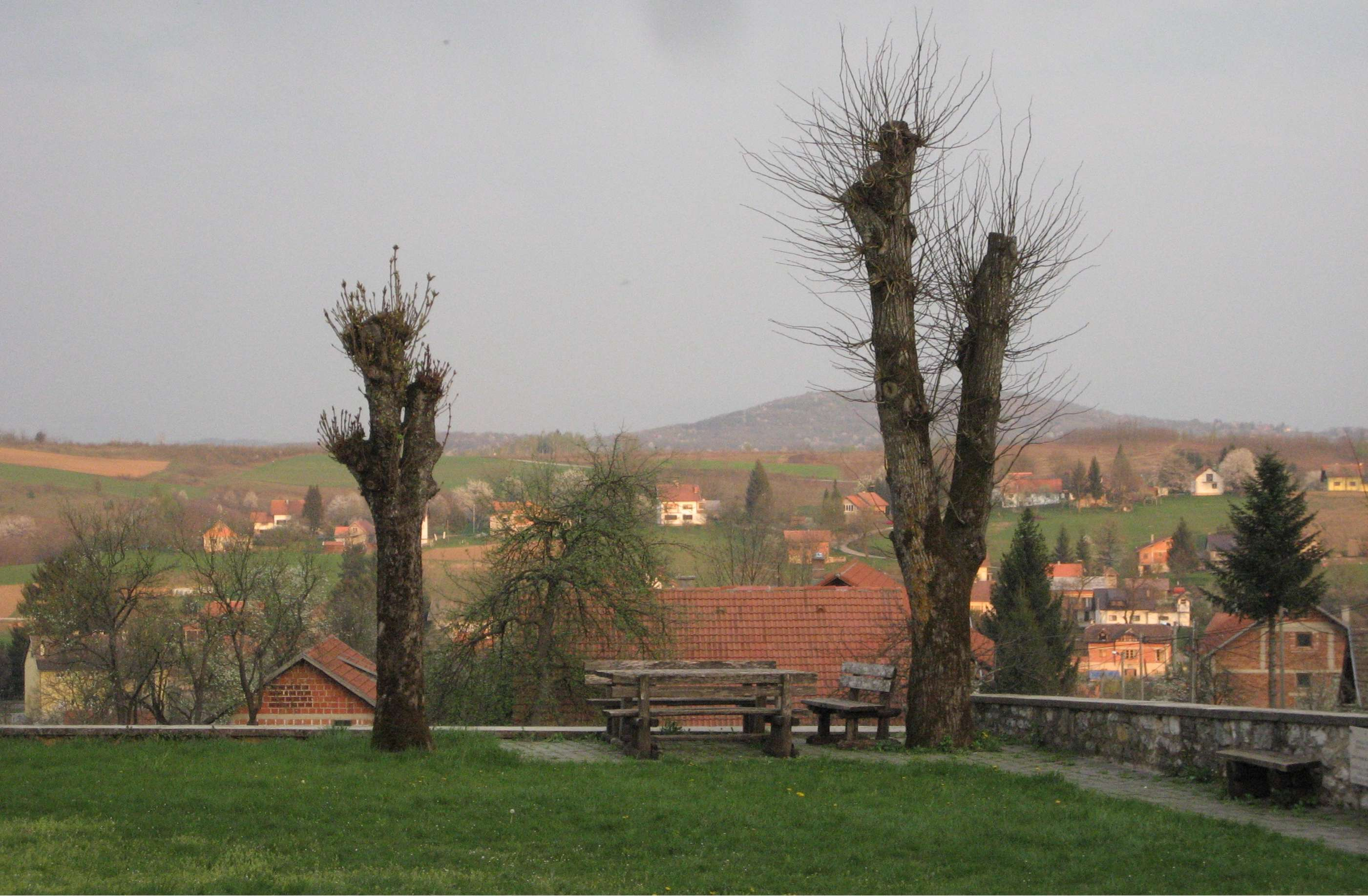 Rakovica, Croatia